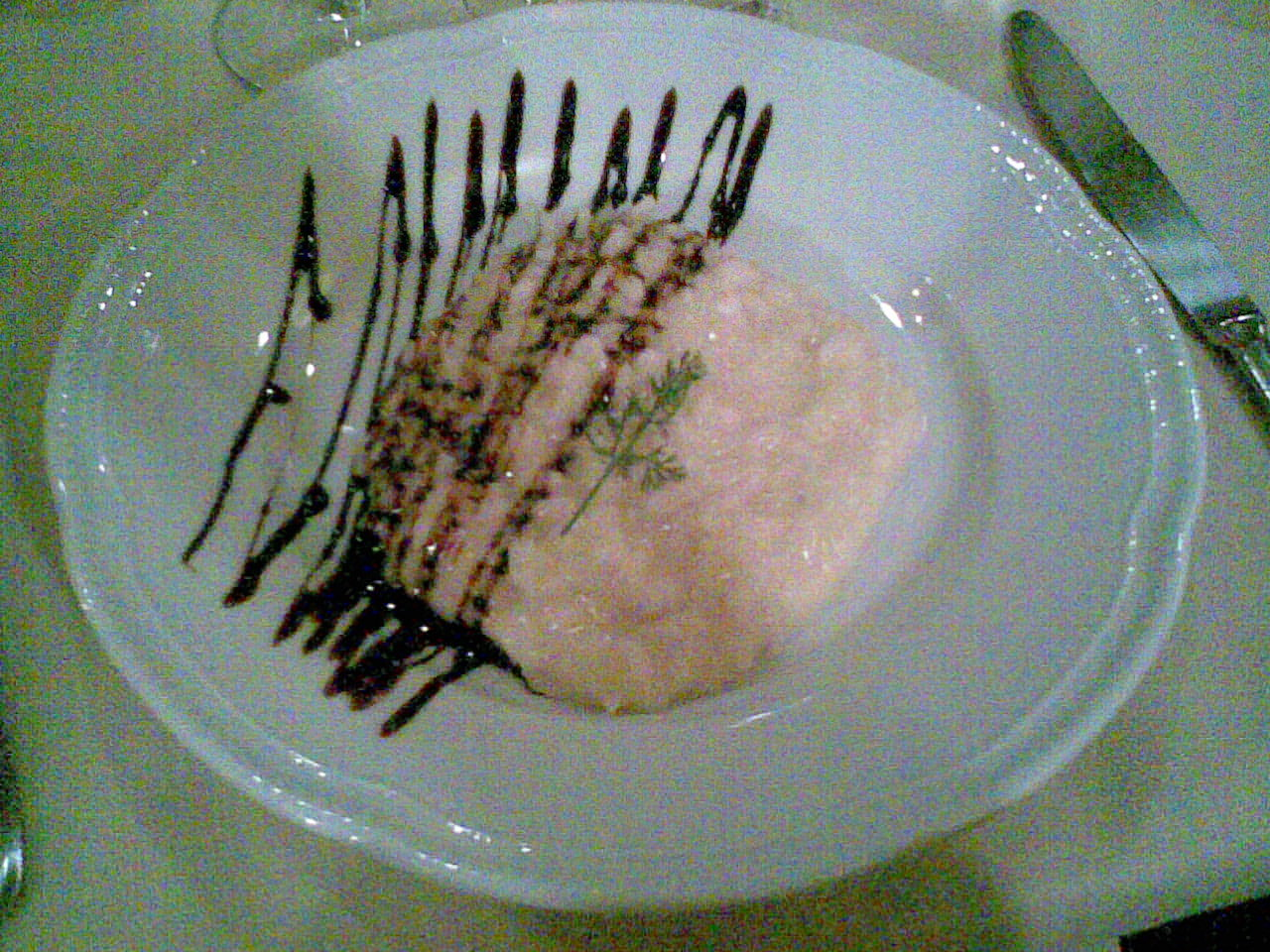 italian food Rice